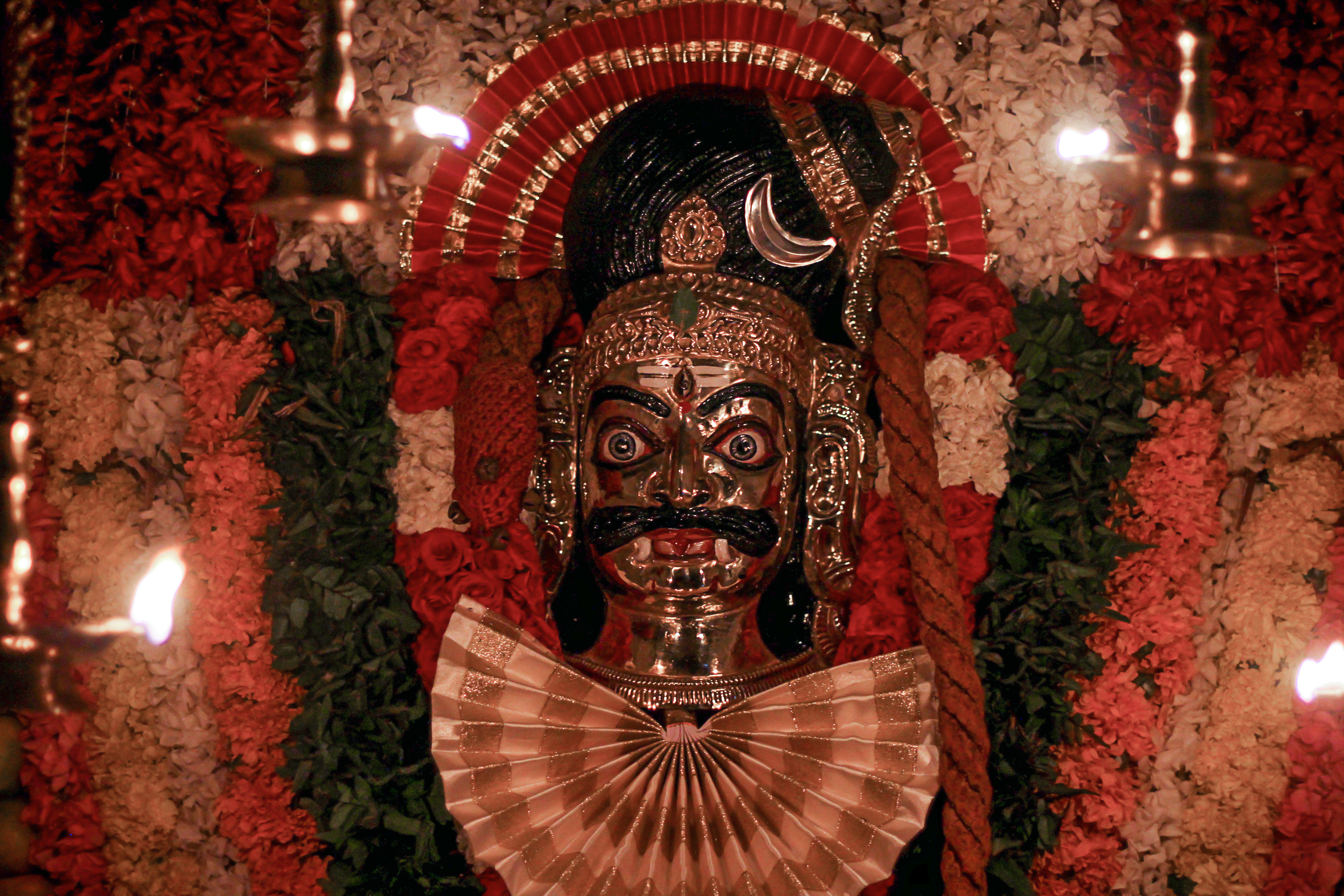 Sree Shiva Sudalai Madan